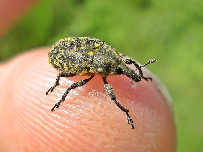 Larinus turbinatus (Curculionidae spec.), Elst (Gld), the Netherlands